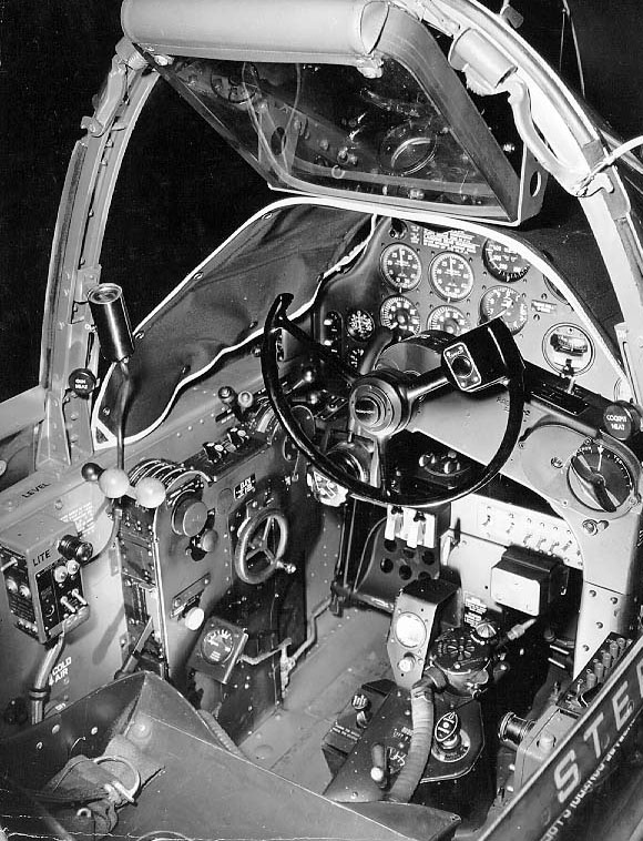 Lockheed P-38G cockpit looking in from right wing